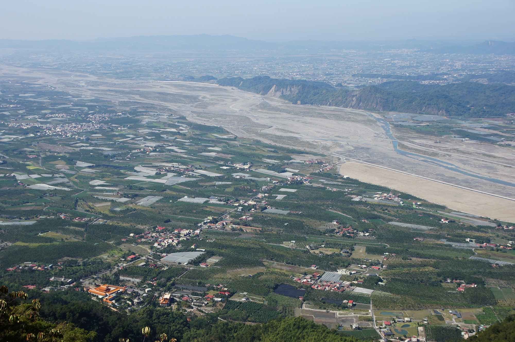 Pingtung Plain and Lao Nung River, Pingtung/Kaohsiung, Taiwan 中文（台灣）: 荖濃溪流經屏東平原